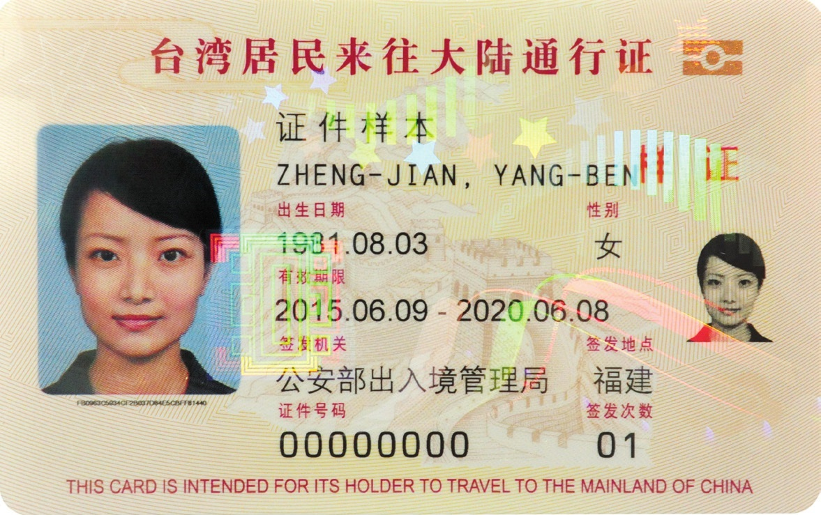 Mainland Travel Permit for Taiwan Residents issued from 2015